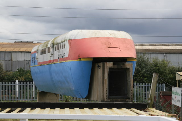 RTV 31 hovertrain, Railworld, Peterborough Railworld's most significant exhibit. Potentially world-beating technology that came to nought.